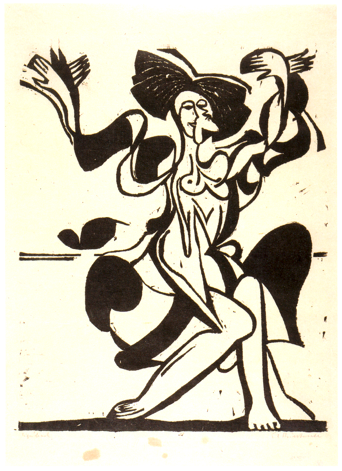 Dancing Mary Wigman - Woodcut - 44,7 x 35,8 cm - Museum Folkwang, Essen